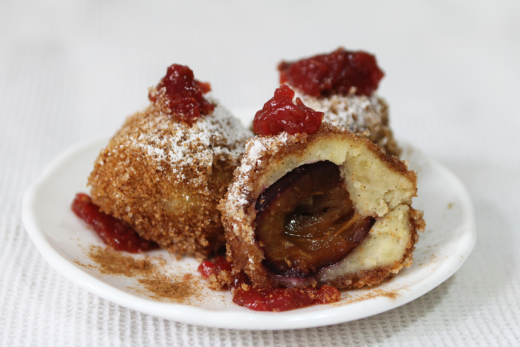 Plum dumplings (gombots) made from a Romanian recipe